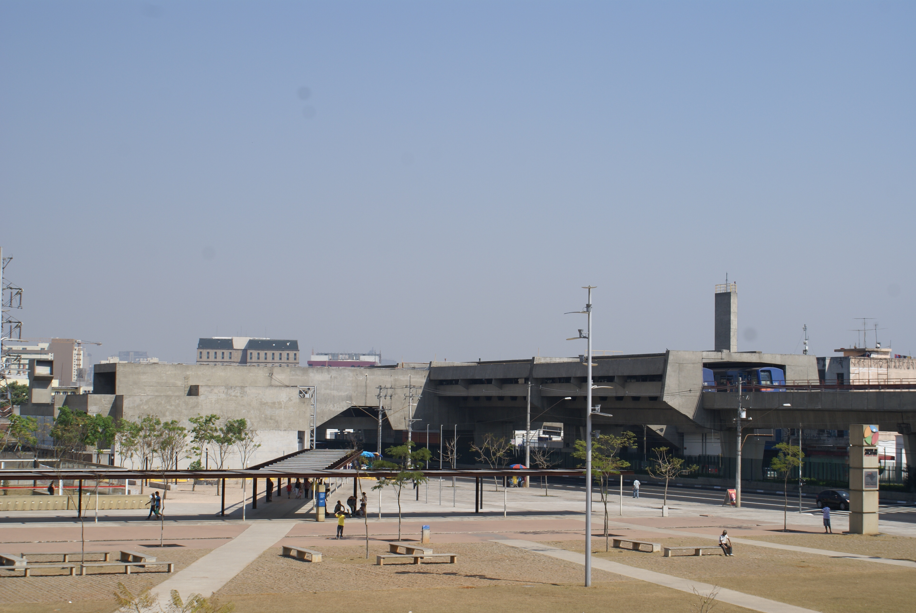 Carandiru Station of Subway, in São Paulo City, Brazil.